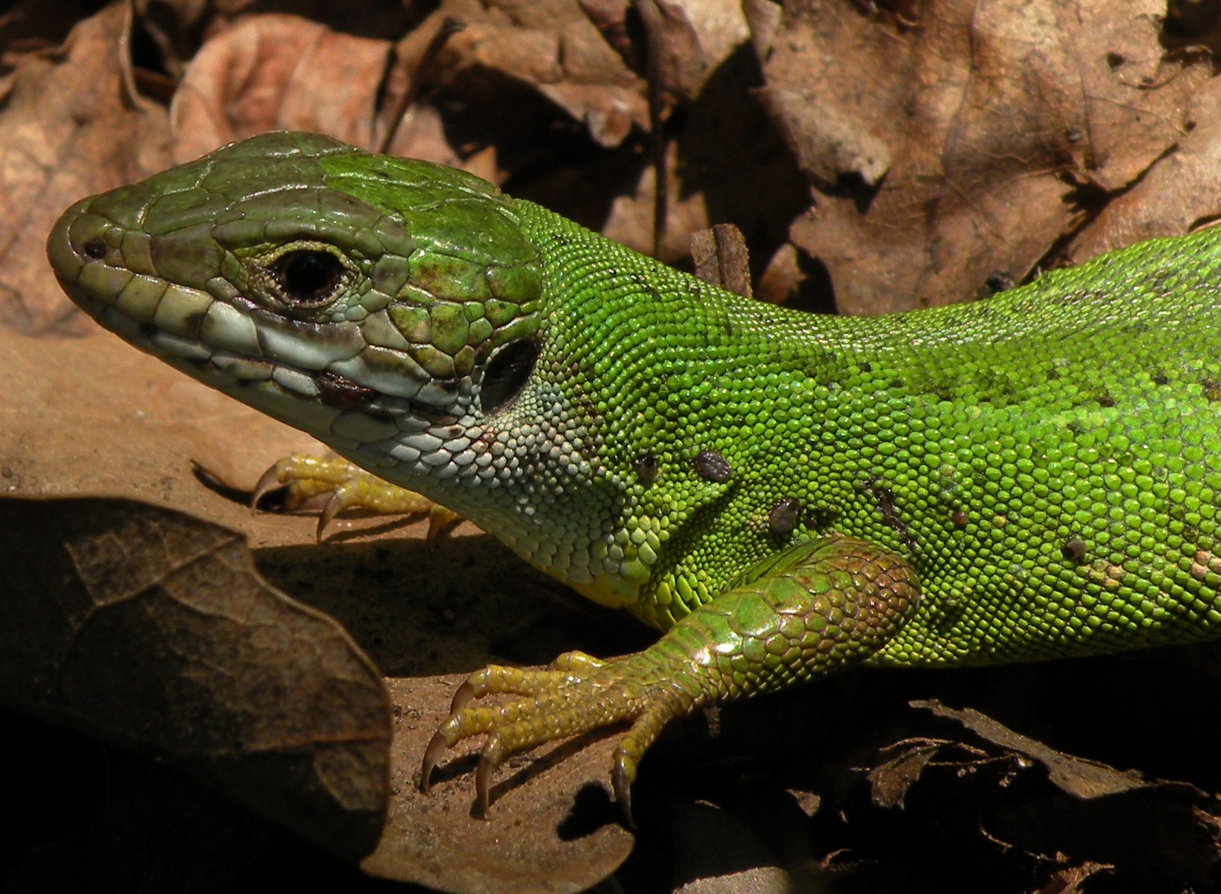 A European green lizard infested with ticks, on dead oak leaves.